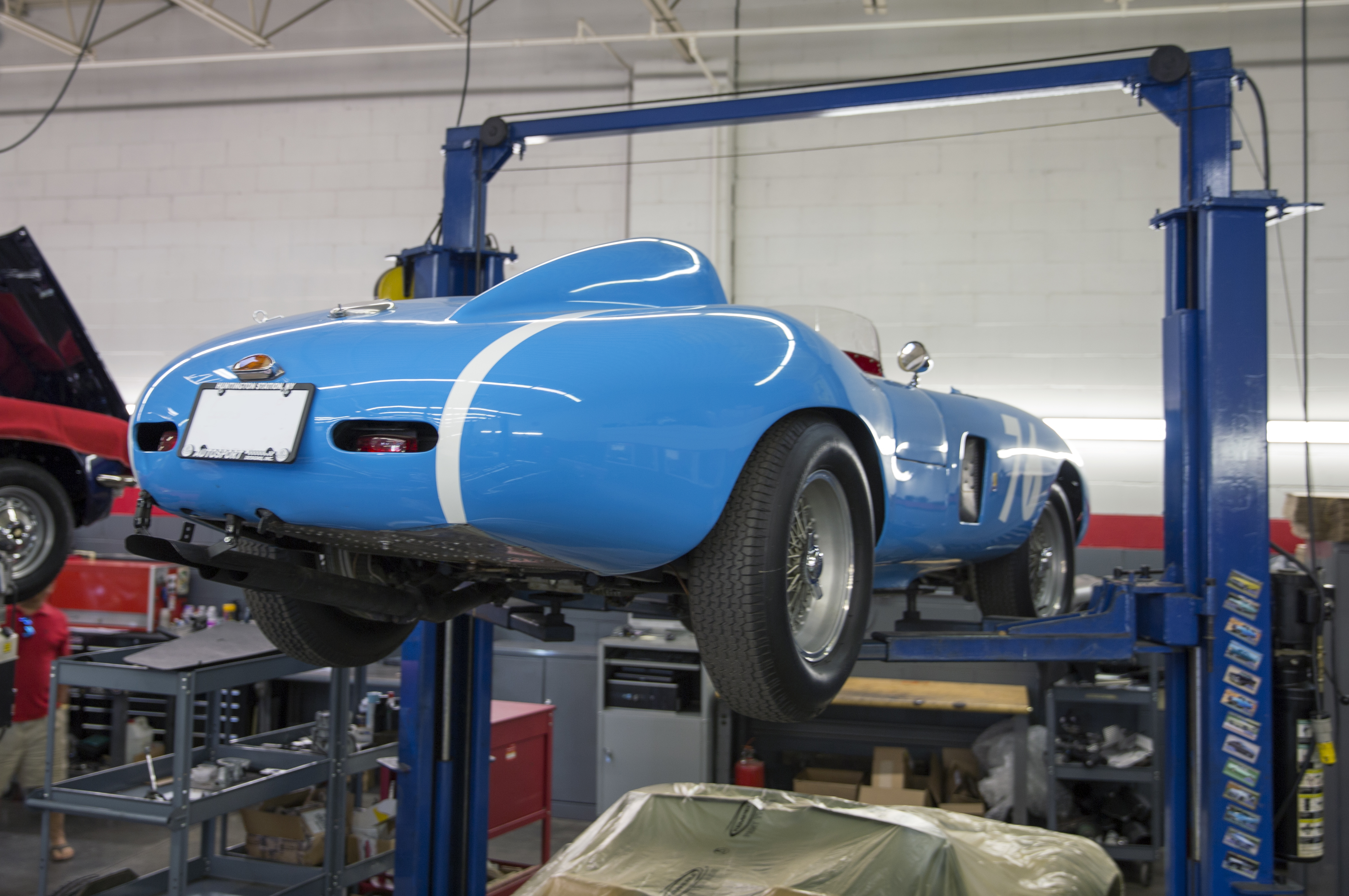 A 1955 Ferrari 121 LM Spider by Scaglietti at Autosports Designs in Huntington, NY (Long Island). Started out as a 118 LM and was modified later. 4414cc inline-six with 360 cavalli. 0546LM was the third 121 LM built and competed in the 1955 Mille Miglia as well as at Le Mans - retiring from both. It was then raced in California, where Ernie McAfee died in this car in 1956. It was raced in historic races from 1974 until 1997, after which it was mostly hidden until it sold for $5,720,000 in 2017. Here it is undergoing some fettling. Read more here.